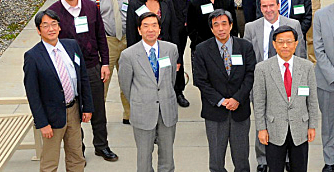 The Office of Environmental Management, the Department of Energy, held the workshop for Japanese officials leading the cleanup of the Fukushima Daiichi Nuclear Power Plant site and surrounding area at the Hanford Site in Washington State on 2012. (c.f. "EM Hosts Second Successful Workshop for Japanese Officials", EM Hosts Second Successful Workshop for Japanese Officials | Department of Energy, Office of Environmental Management, Department of Energy, March 9, 2012.)